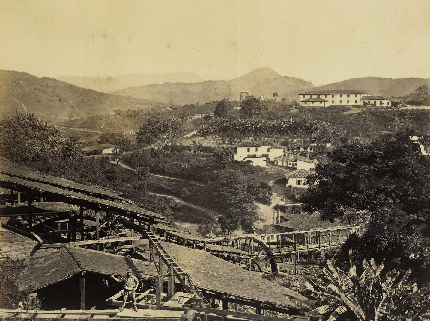 Nova Lima (MG), Brazil - Saint John Del Rey Mining Company (Morro Velho), ca. 1868-69 For detailed file description see File:S. John Del Rey Mining Company- Morro Velho WDL2000.png